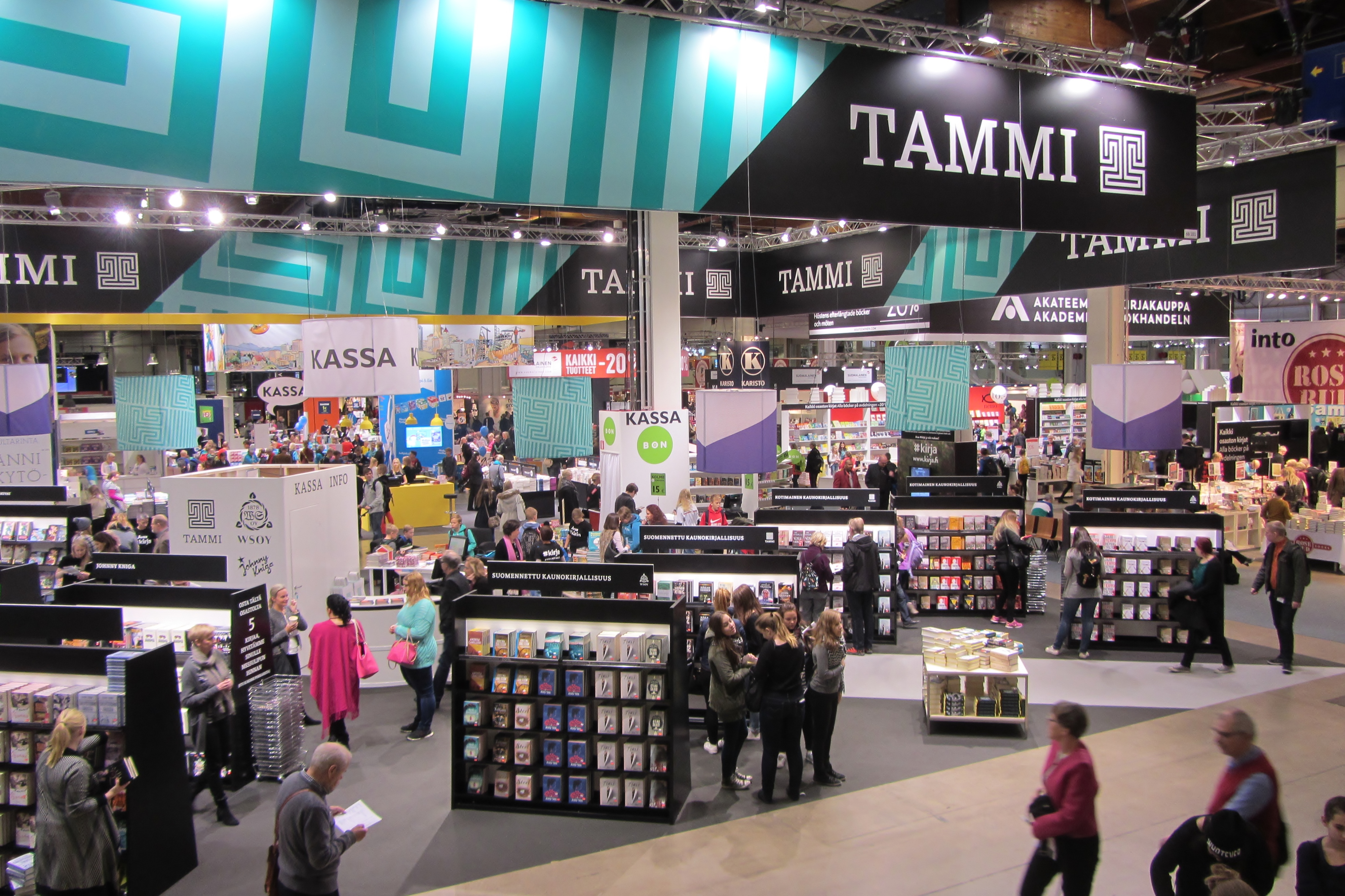 Thursday morning at Helsinki Book Fair 2014